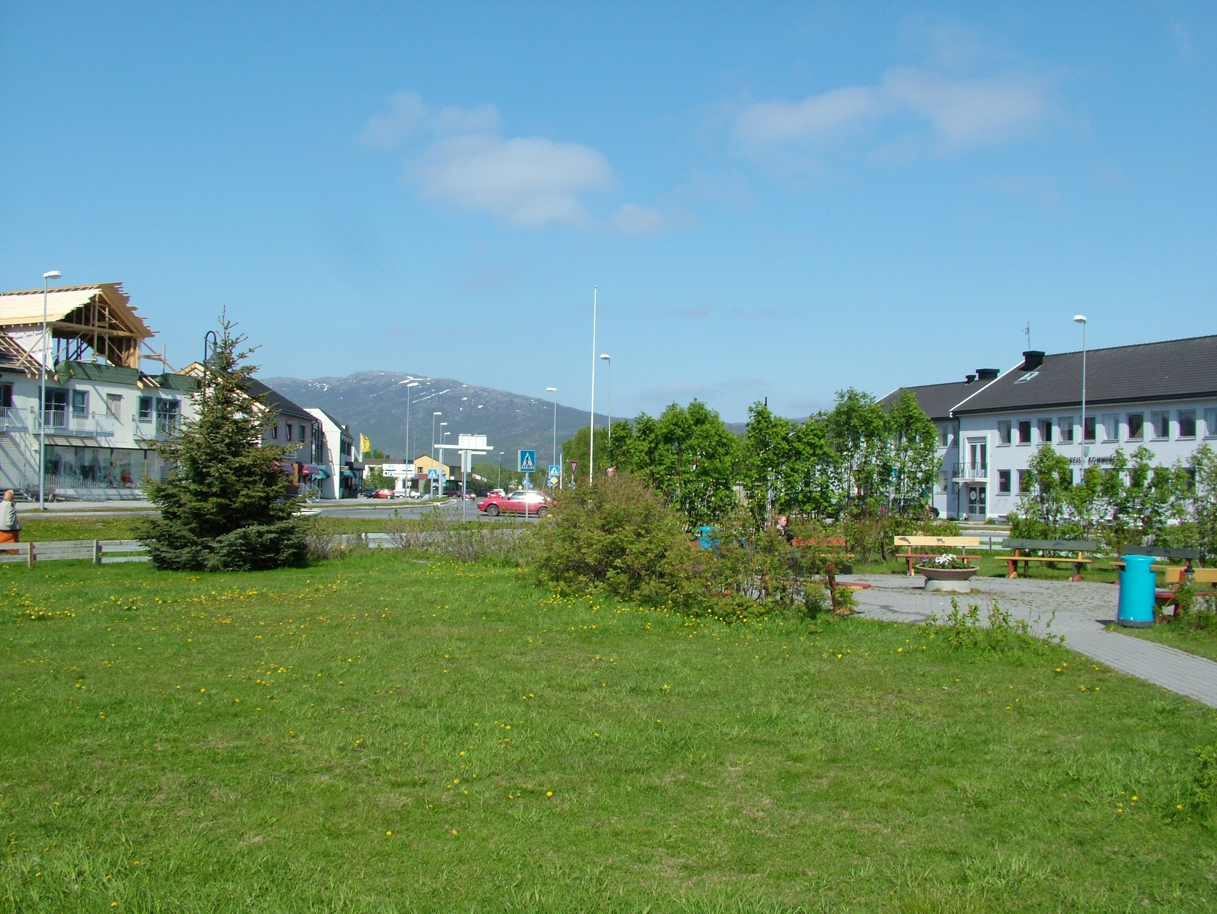 Storslett / Nordreisa / North Norway, the Centrum